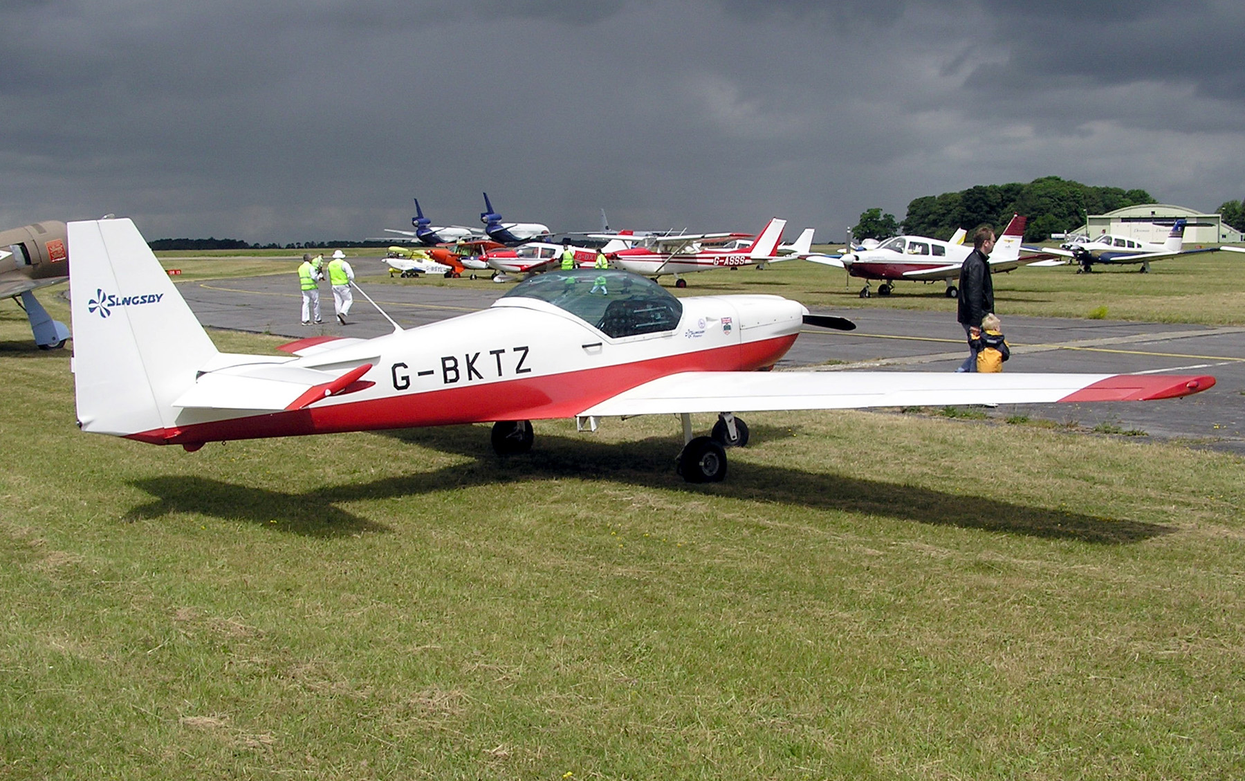 Slingsby T67M Firefly (UK registration G-BKTZ) at Kemble Airfield, Gloucestershire, England. Date of manufacture 1984.